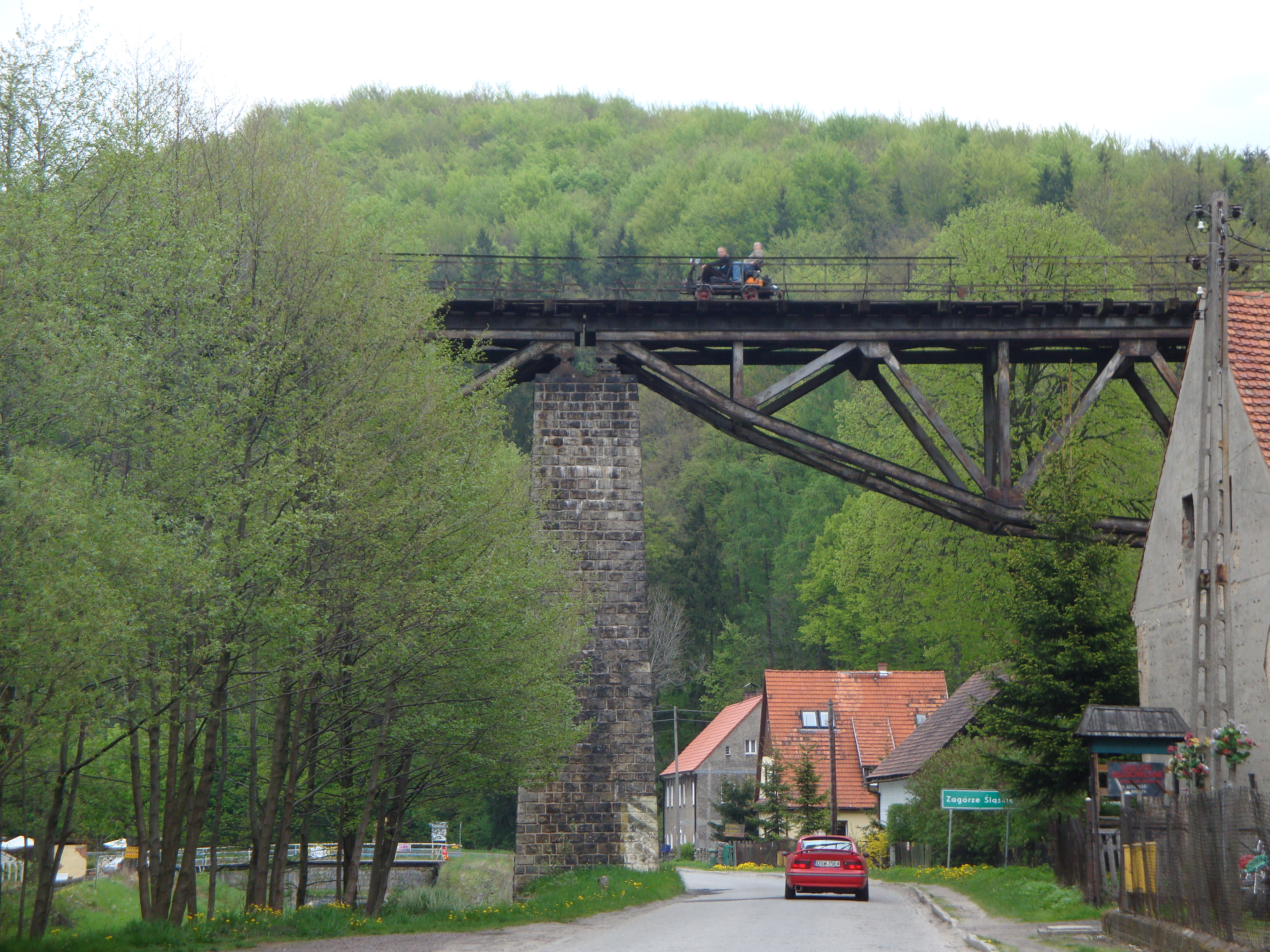 Draisine on a Bridge in Jugowice Village